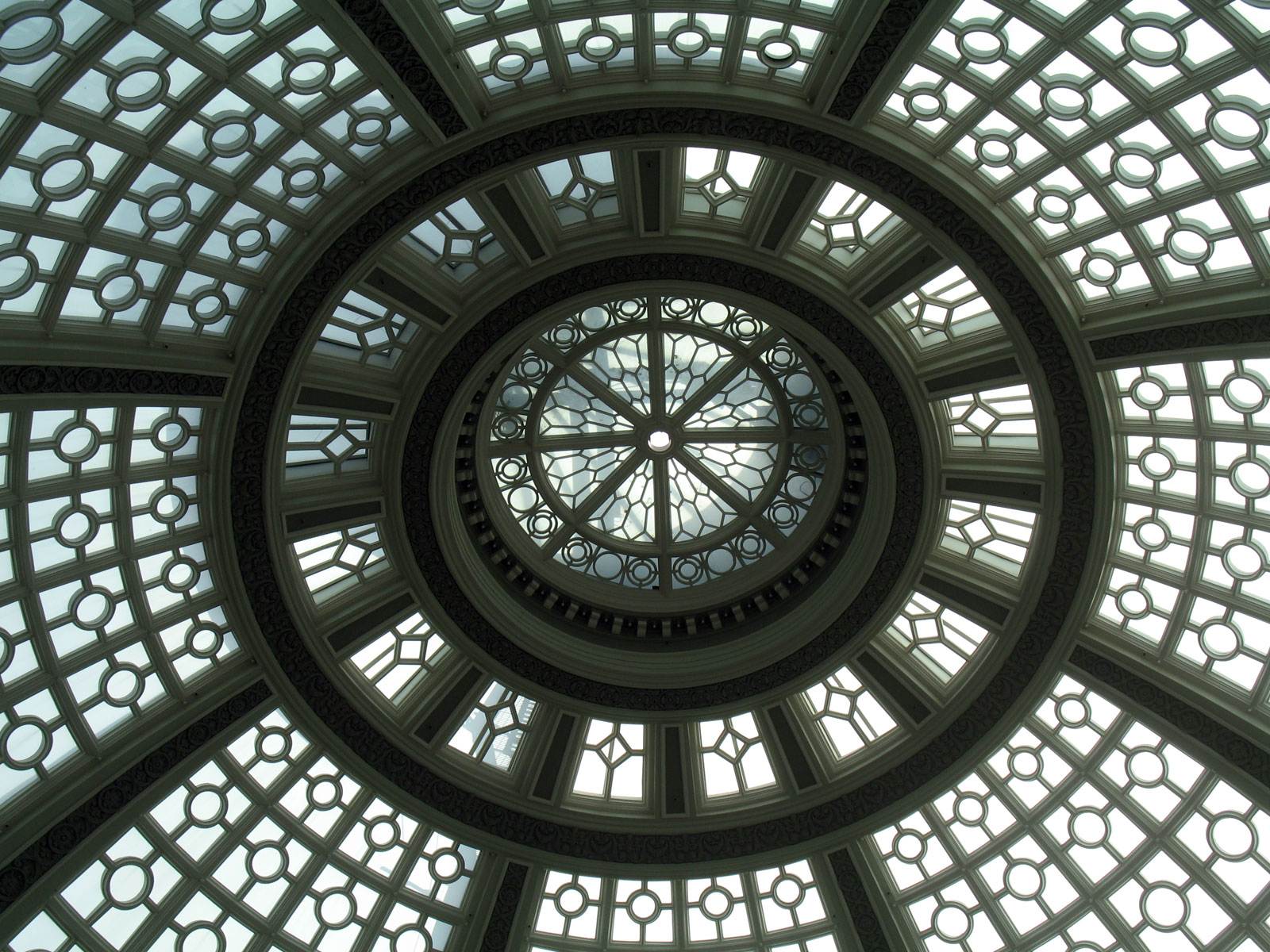 Old Emporium Dome, now part of the Westfield San Francisco shopping mall, designed by Albert Pissis, in San Francisco, California